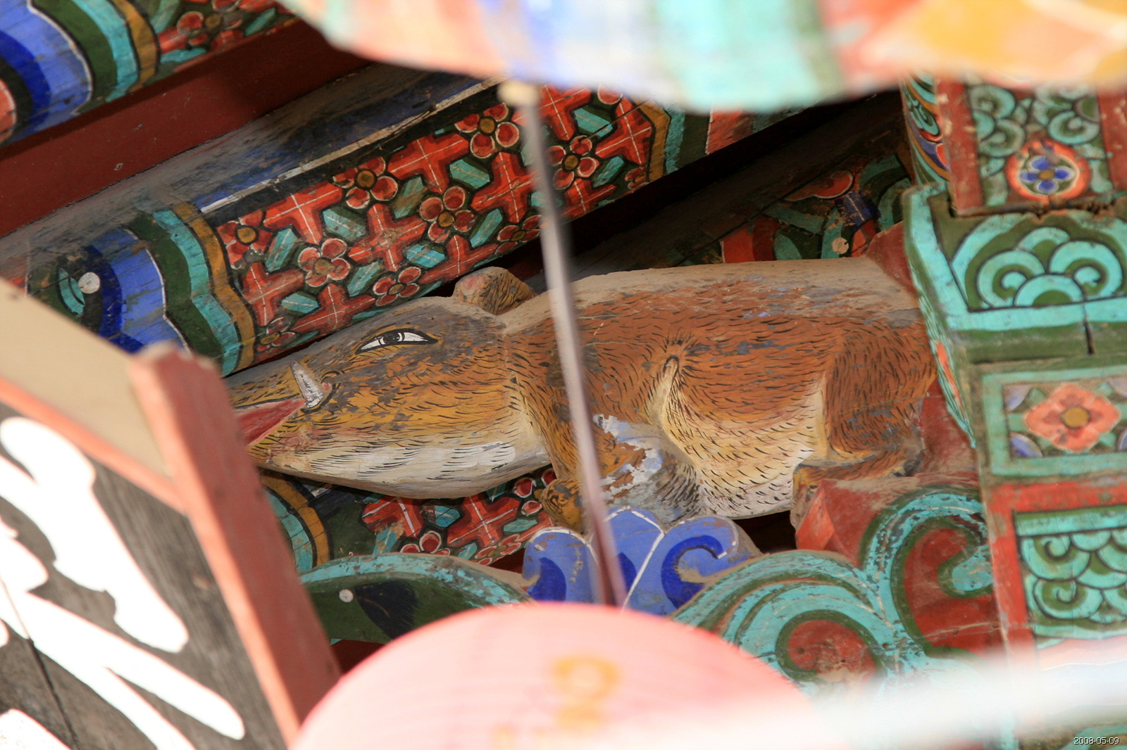 A view of Gyeongju, North Gyeongsang province, South Korea